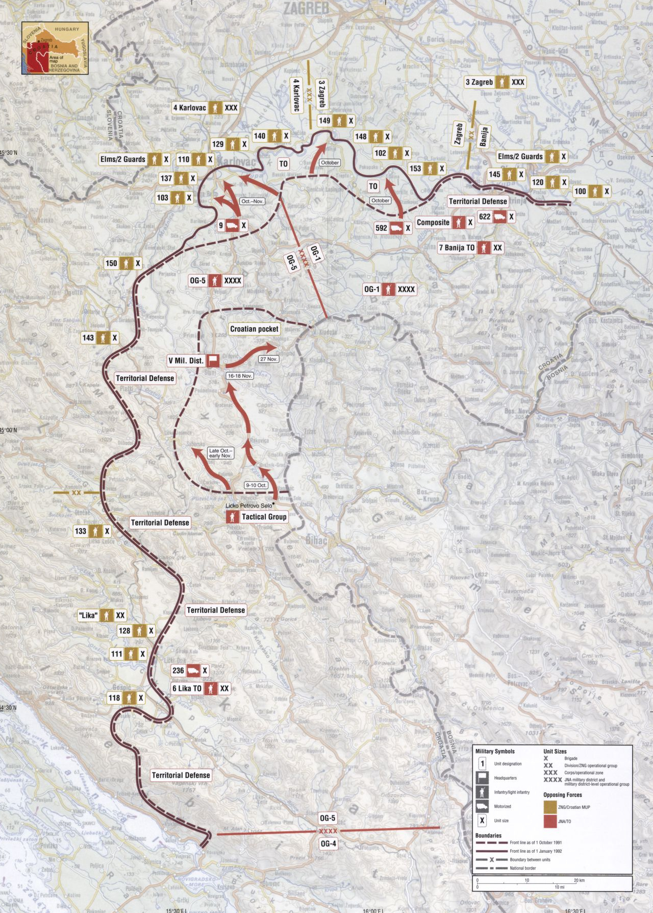 Map of front lines and military offensives in Lika, Kordun and Banovina in Croatia in October-December 1991 period of the during Croatian War of Independence. Balkan Battlegrounds Map 5.